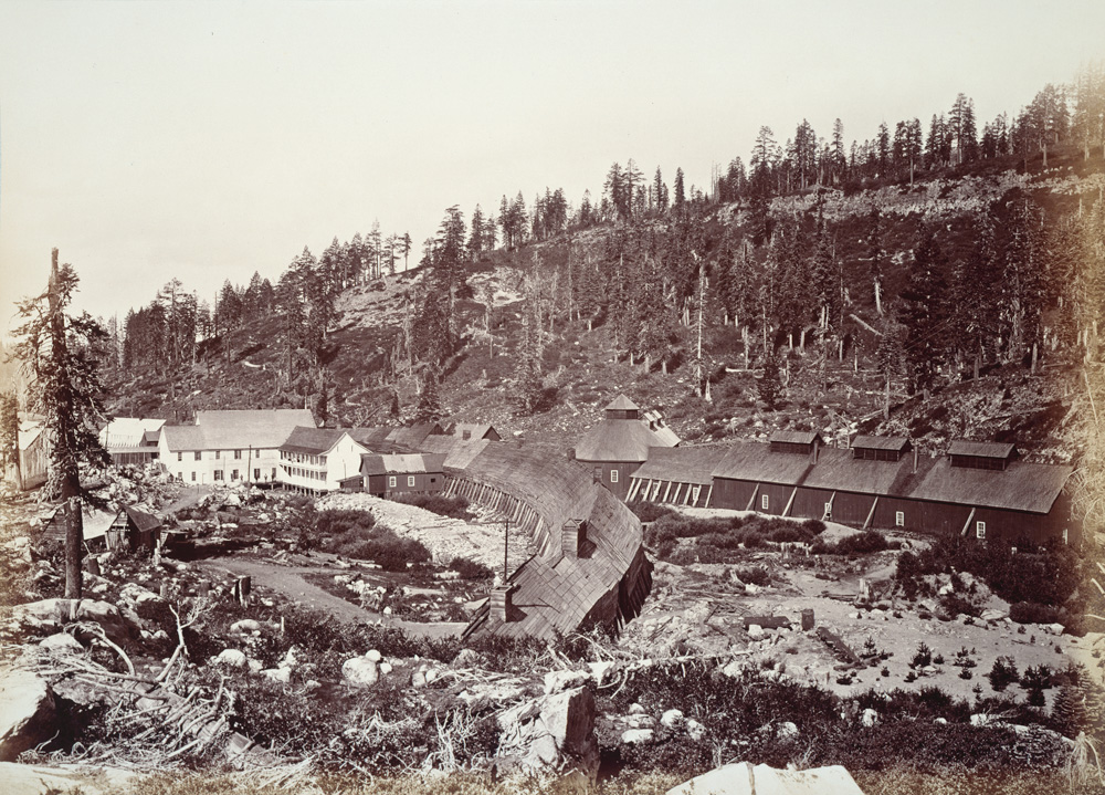 An album by Carleton E Watkins (1829-1916), one of the finest American landscape photographers of the nineteenth century.